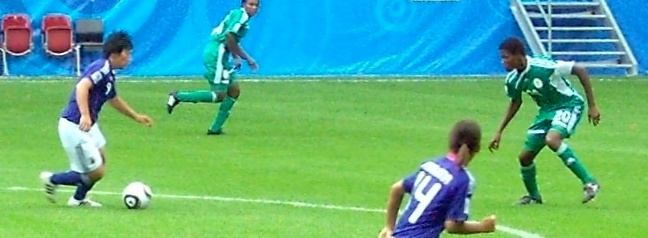 Nigeria–Japan at 2010 FIFA U-20 Women's World Cup in Impuls Arena as “FIFA Women's World Cup Stadium Augsburg”: Osinachi Ohale (Nigeria, no. 20) to the right.